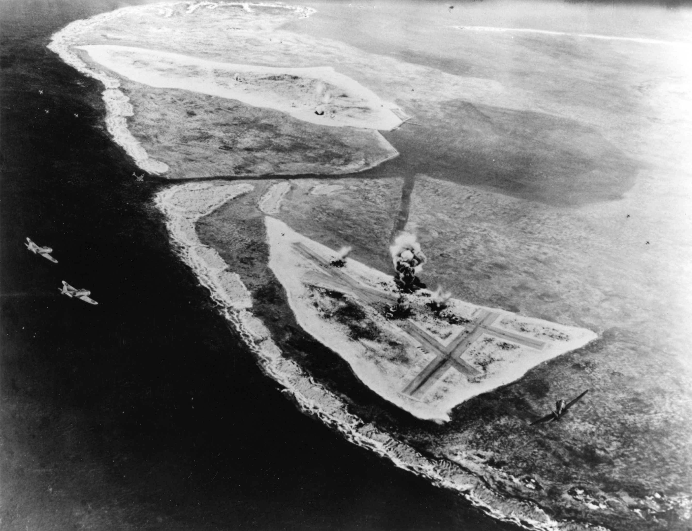 Diorama depicting the the Japanese carrier air attack on Midway in the morning of 4 June 1942. Two Mitsubishi Type 00 (Zero)carrier fighters are at left. Eastern Island airfield is under attack in lower center. Sand Island is in the upper left center, with hits visible in the vicinity of the seaplane hangar.